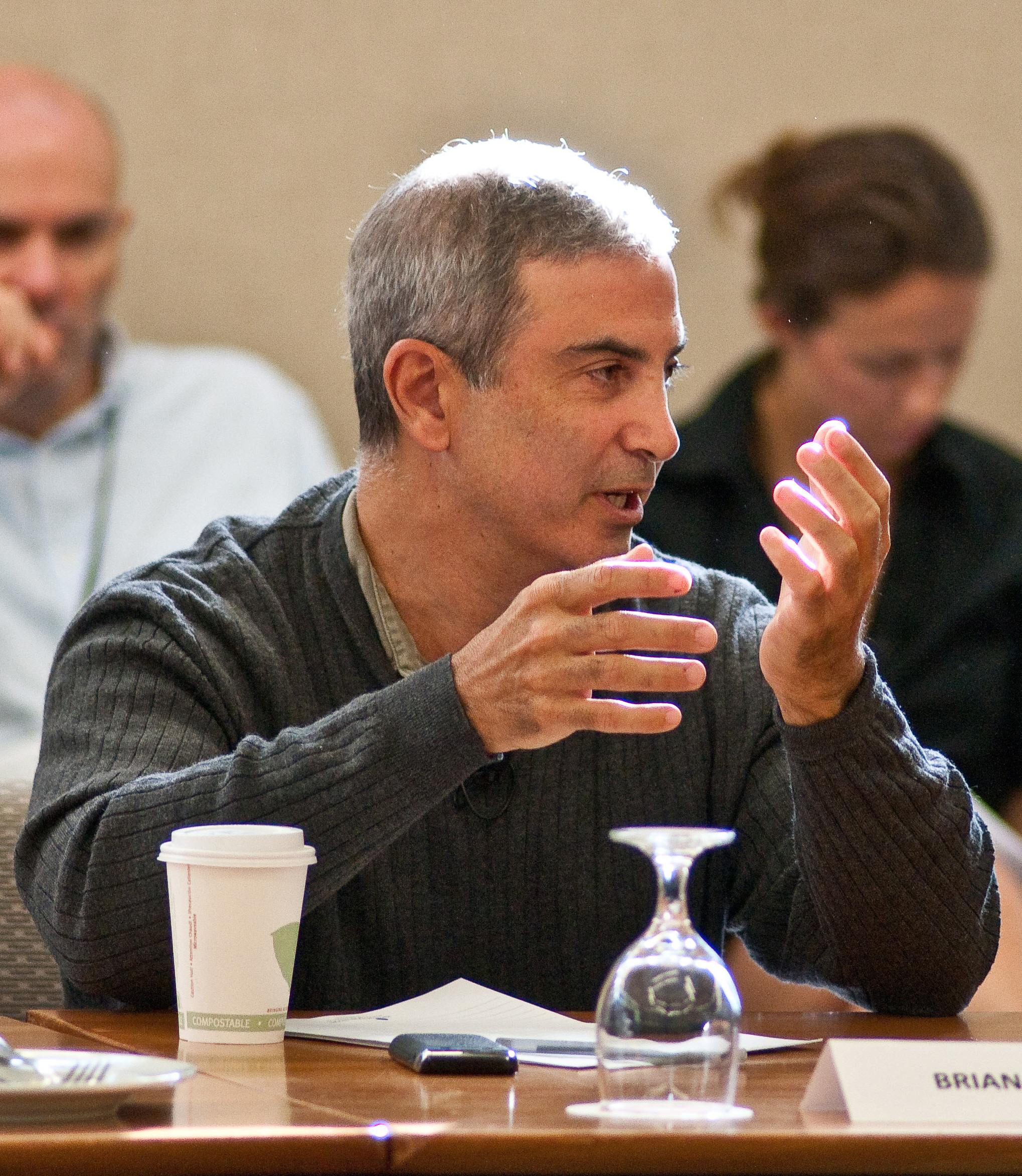 July 21st, 2011--Aspen, CO, USA Brian Bedol, Co-founder and CEO, Bedrocket Media Ventures speaks at the "Publishing and Broadcasting: Who Survives and Who Thrives?" breakfast roundtable at Fortune Brainstorm TECH at the Aspen Institute Campus. Photograph by Kevin Moloney/Fortune Brainstorm TECH